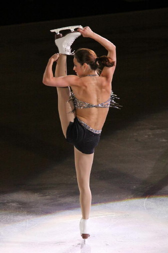 Sasha Cohen performs an I-spin at the 2009 Stars on Ice in Halifax, Nova Scotia.